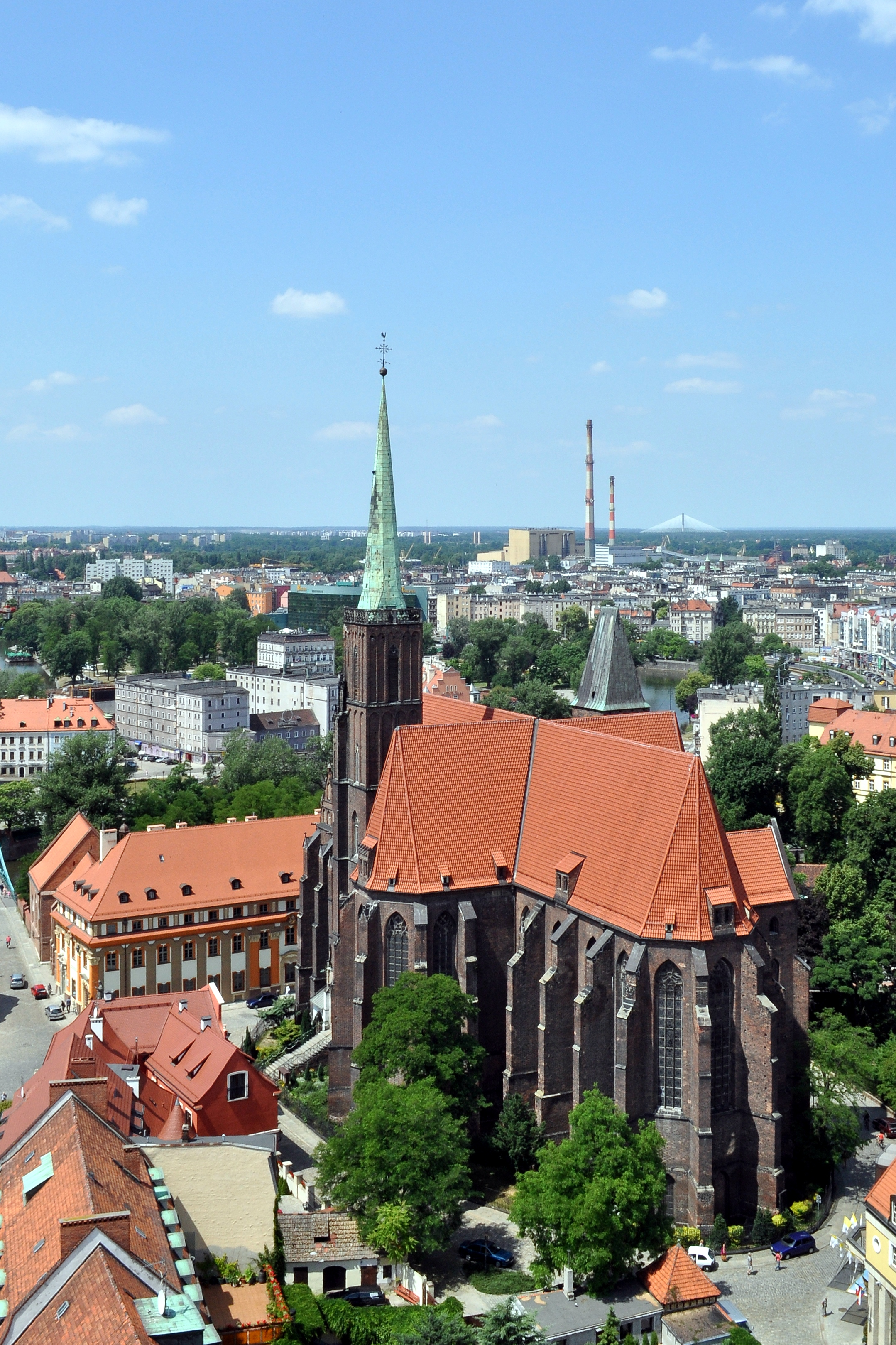 The church of the Holy Cross in Wrocław